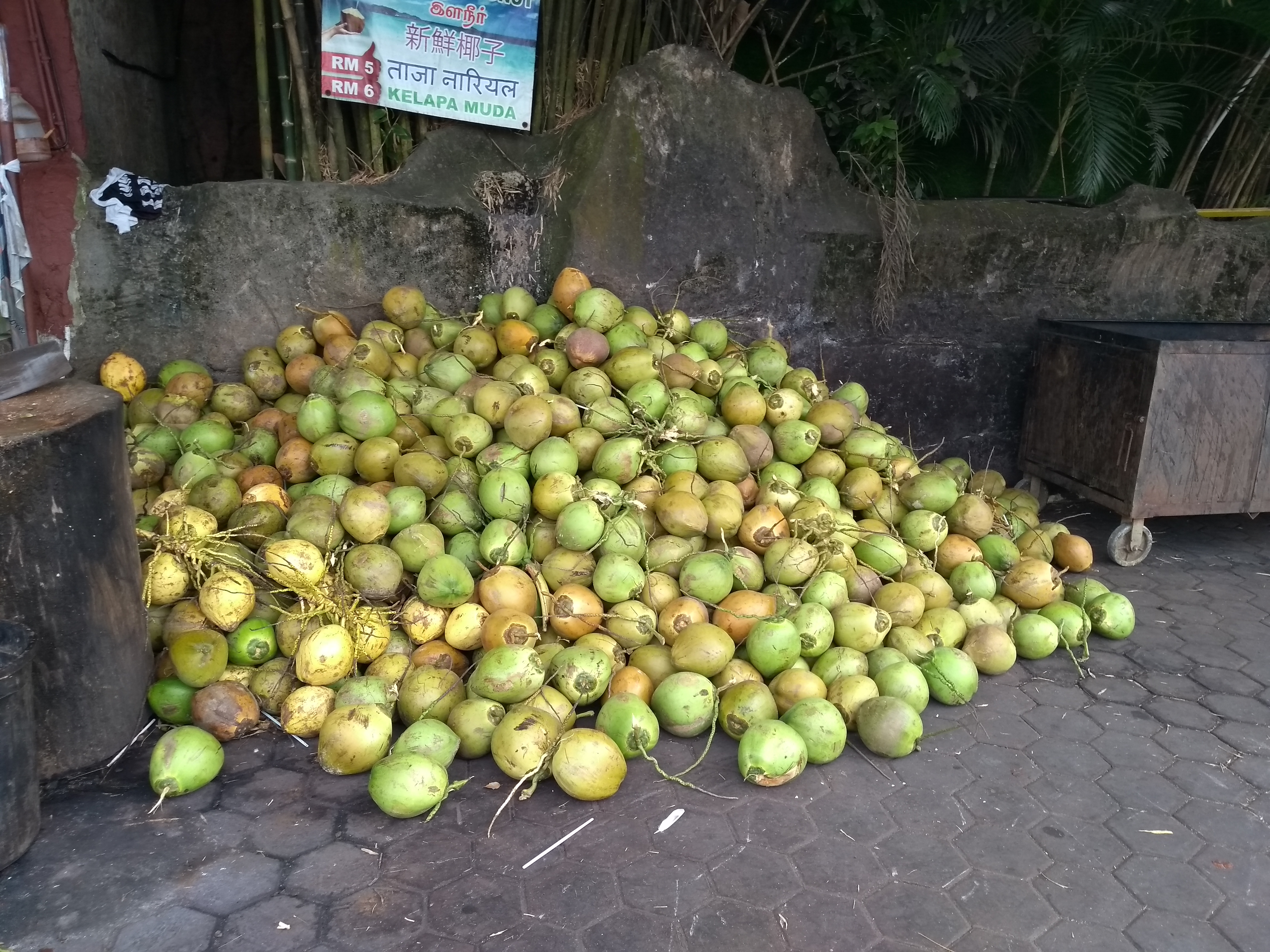 Batu Caves